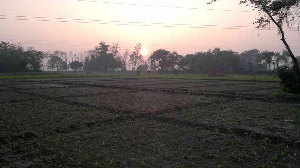 Land of Kolasi is suitable for the agriculture. The main attractions of agriculture are Rice, Wheat, Corn, Banana, Vegitables and various spices.